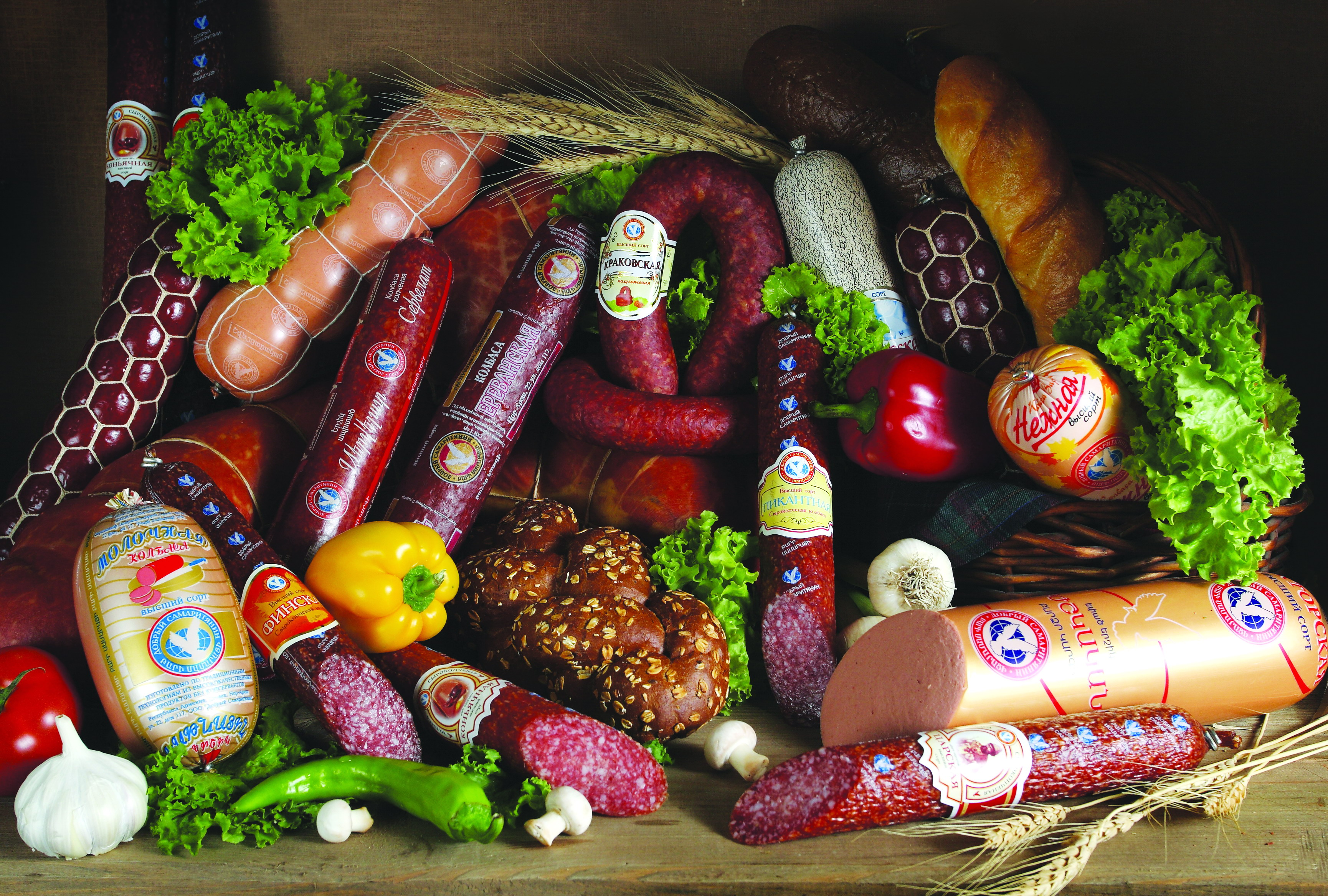 Sausages from Armenia.